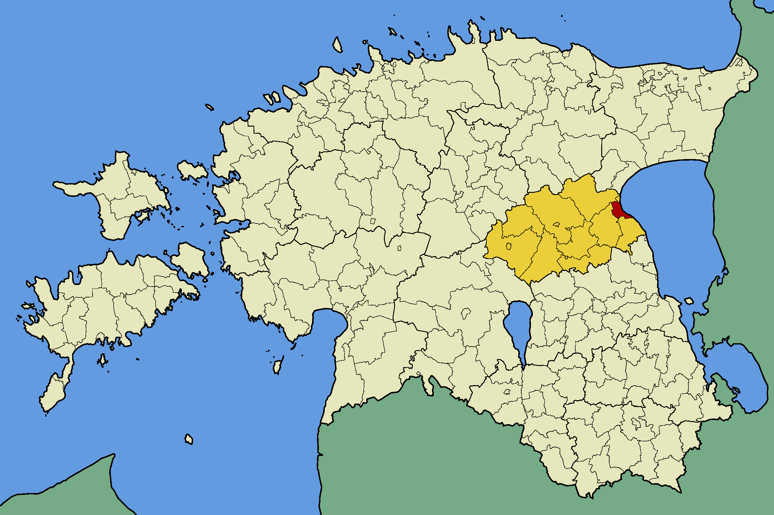 Map of Estonia with borders of municipalities (parishes). Jõgeva county and Kasepää municipality emphasized.